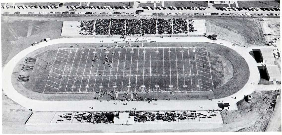 Blum Stadium aerial view